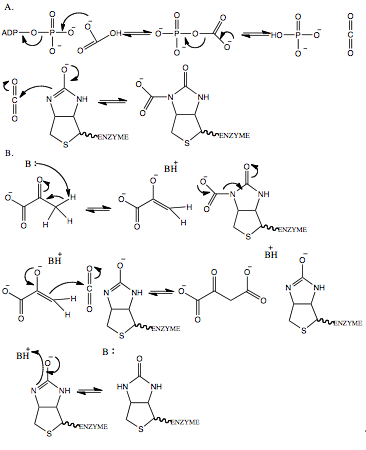 Made original chem bio draw version of the proposed mechanism of action of the enzyme pyruvate carboxylase. Will be added to the pyruvate carboxylase wikipedia page